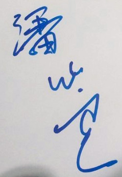 This is Poon Chan Leung's signature.